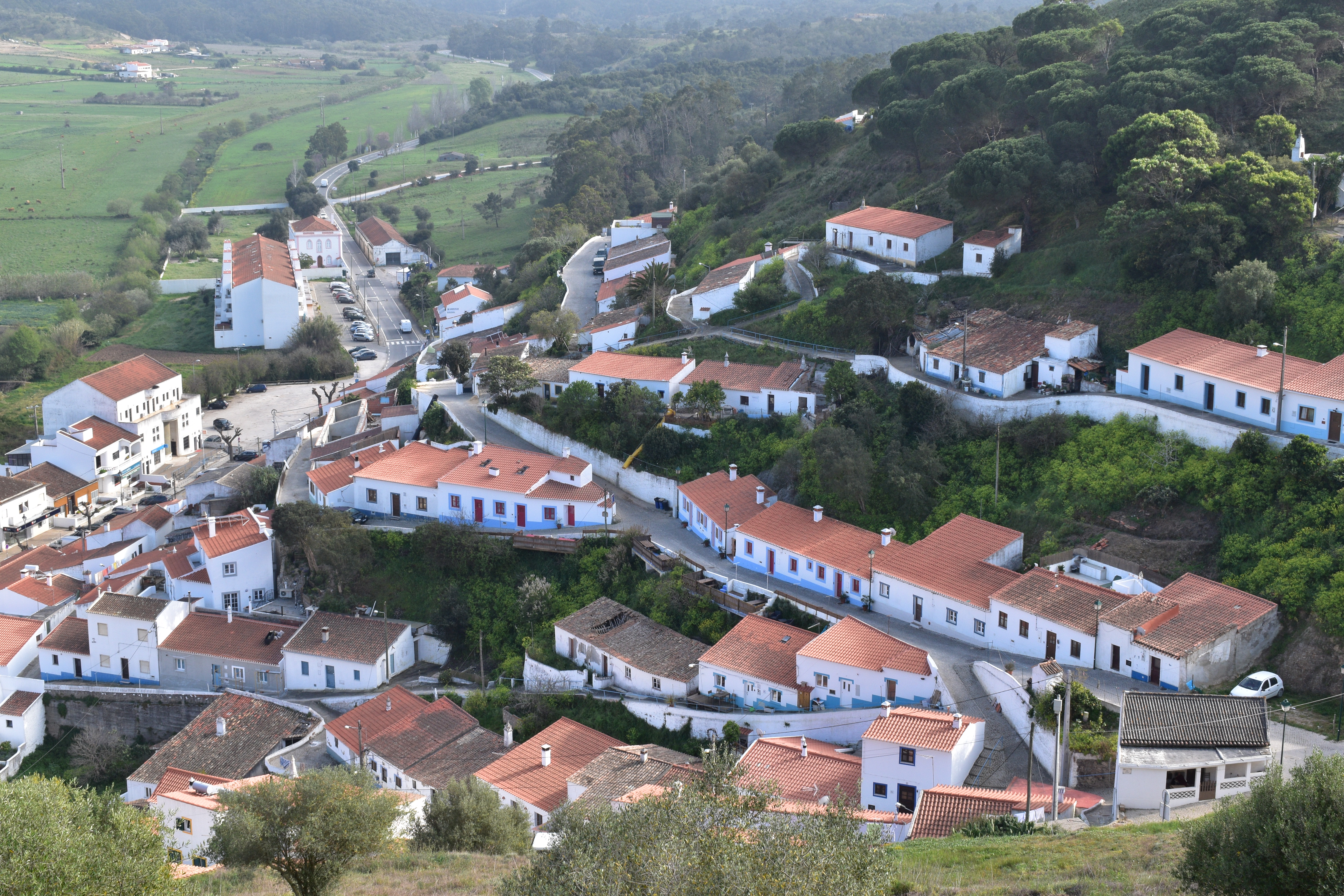 Entrance of Aljezur seen from the Castle, in the Algarve, Southern Portugal.